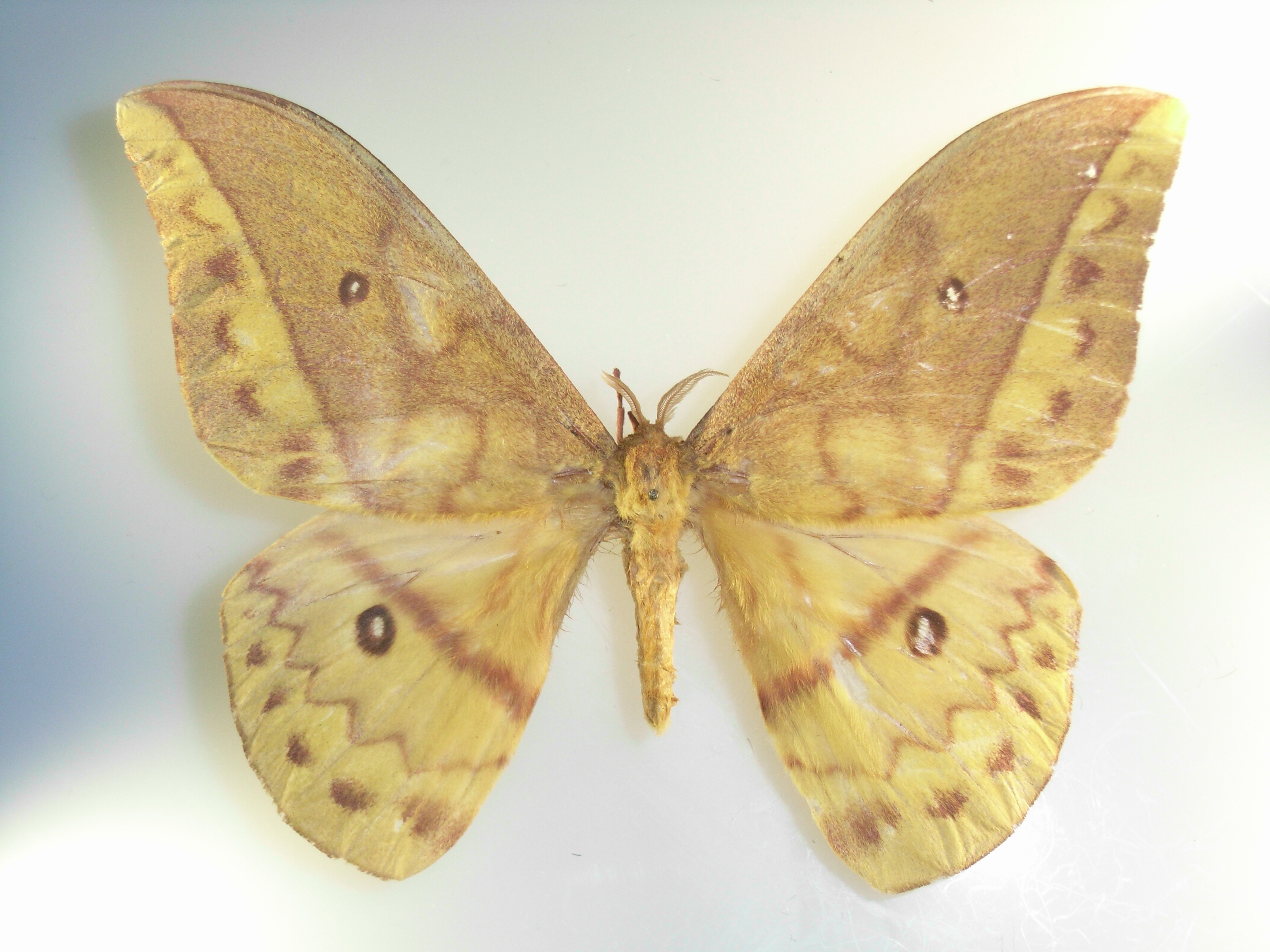 Pseudantheraea discrepans (Butler, 1878) Cameroon Ex coll. Felix Stumpe